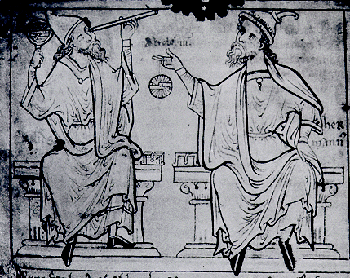 Hermann of Reichenau